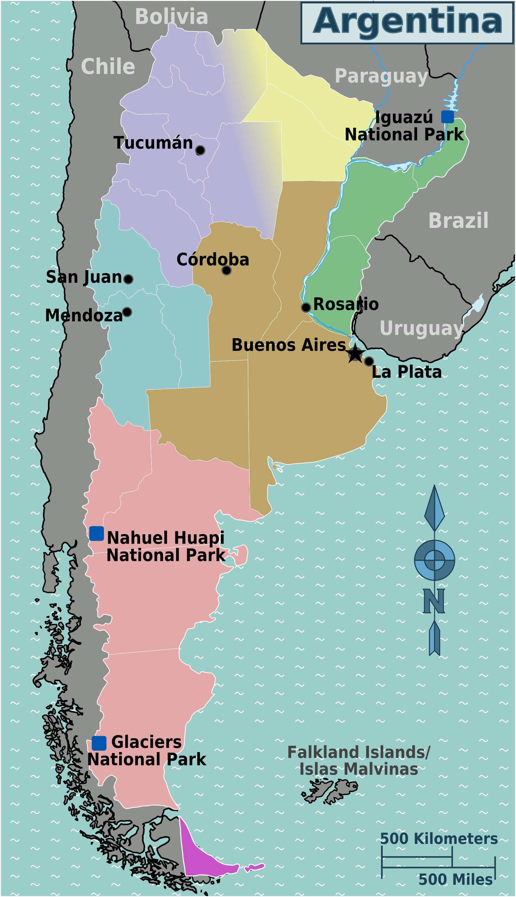 Regional map of Argentina (Wikivoyage regional scheme), English version